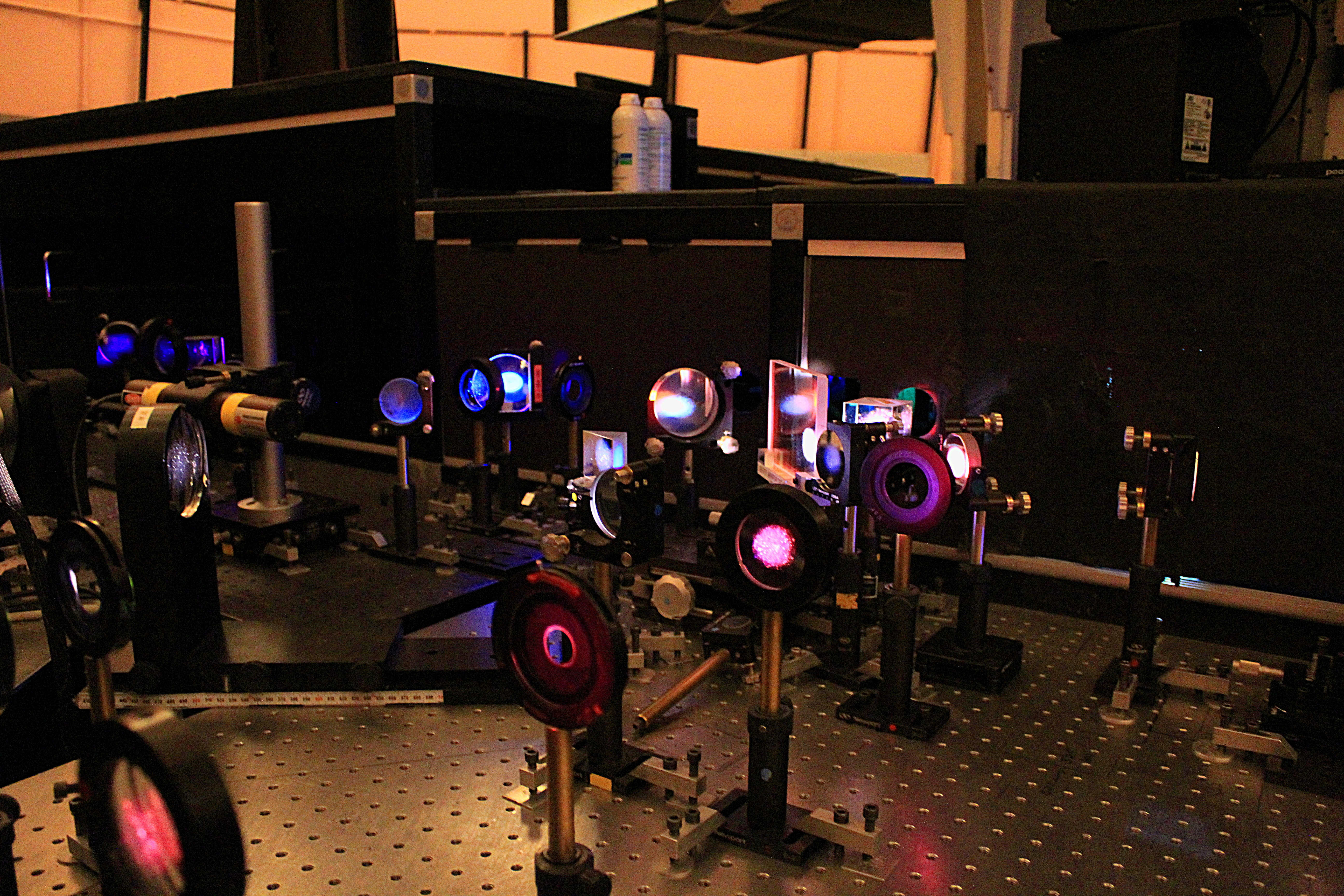 Instruments at the DST